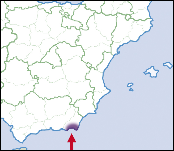 Helicella stiparum (Rossmässler, 1854). Distributional range in Europe, scientific state of knowledge of 2012. Source description in English. Light colour indicated rare occurrences or regions where the species could eventually be expected to occur. Dark colour indicated relatively reliable occurrences, as well as regions where the species was expected to occur, and where the species was not known to be extremely rare. Dark colour indications were not necessarily based on published records. Species summary in AnimalBase